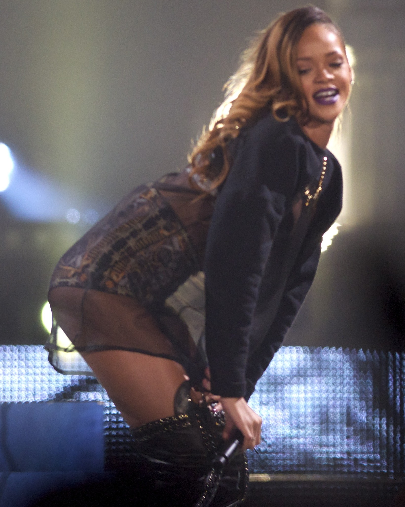 Rihanna performing Diamonds World Tour at the Xcel Energy Center, 24 March 2013.